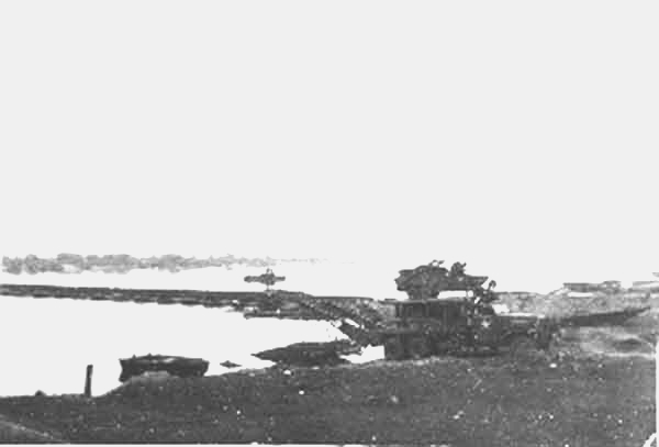 Destroyed bridge at Elbe River near Westerhusen 13 April 1945, abandoned after almost completed due enemy shelling destroyed five bridge pontoon floats.